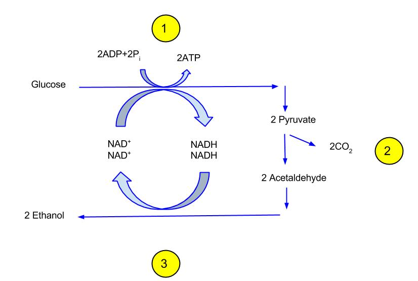 In ethanol fermentation. One glucose molecule breaks down into two pyruvates (1). The energy from this exothermic reaction is used to bind inorganic phosphates to ADP and convert NAD+ to NADH. The two pyruvates are then broken down into two Acetaldehyde and give off two CO2 as a waste product (2). The two Acetaldehydes are then converted to two ethanol by using the H+ ions from NADH; converting NADH back into NAD+ (3).